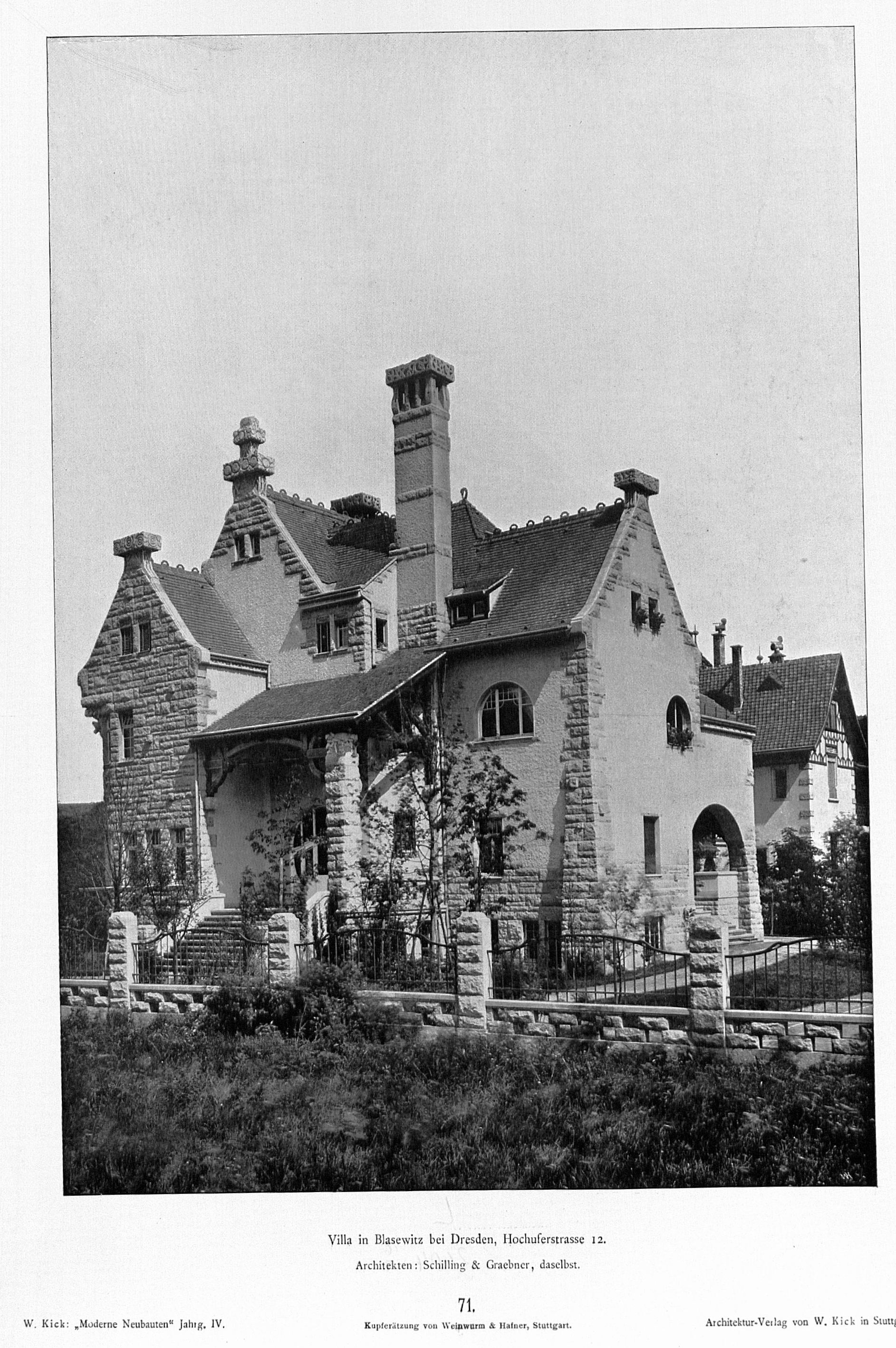 Villa_in_Blasewitz_Dresden,_Hochuferstr._12_Architekten_Schilling_&_Graebner_Dresden_andere_Ansicht.jpg